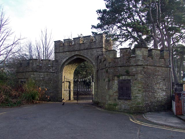 Lower Lodge, Gnoll Estate A lodge house of the Gnoll estate. Now unused, latterly used as an office for the Gnoll Grounds.